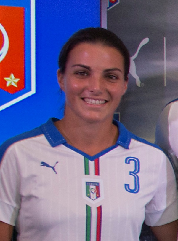 Alia Guagni in 2015.